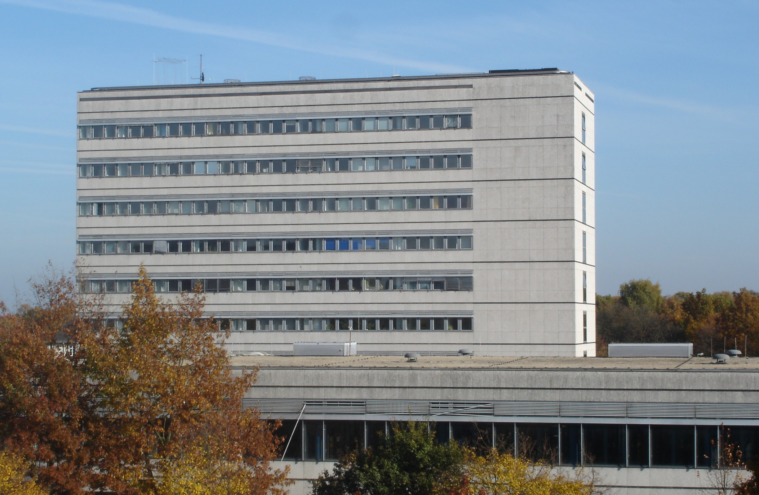 University of Muenster (Westphalia), Germany (mathematics-building)